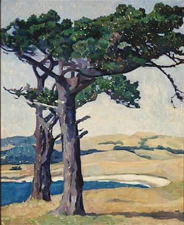 Carmel by Anne Bremer, 1915, oil on canvas, 28.75 x 23.75 in., Mills College Art Museum